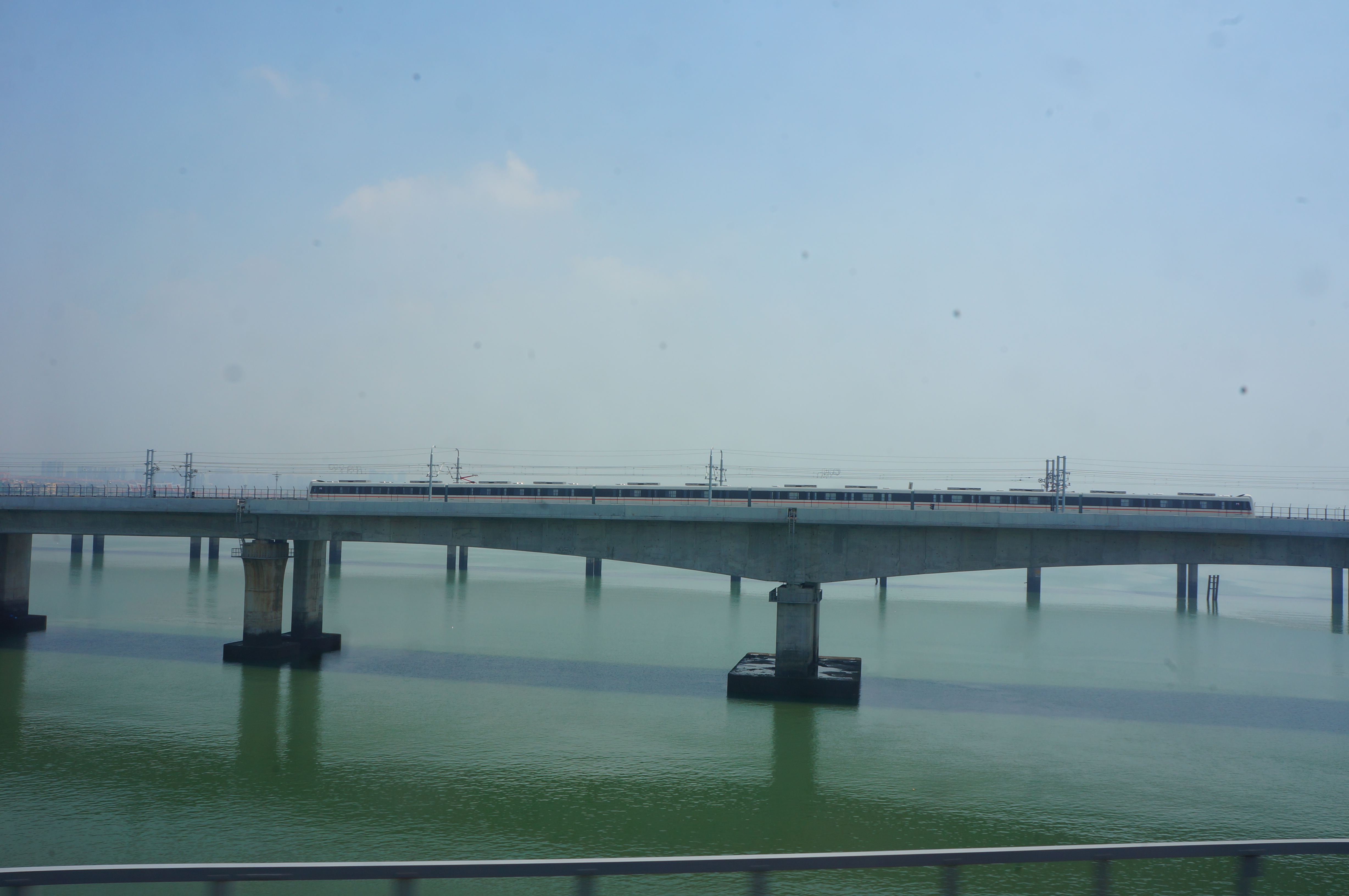 201708 AMTR L1 Train on Gaoqi-Jimei Bridge. Taken from K1210. Our train exceeded it soonly.